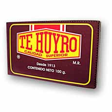 marca huyro